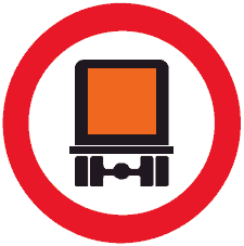 Diagram of road signs of Luxembourg